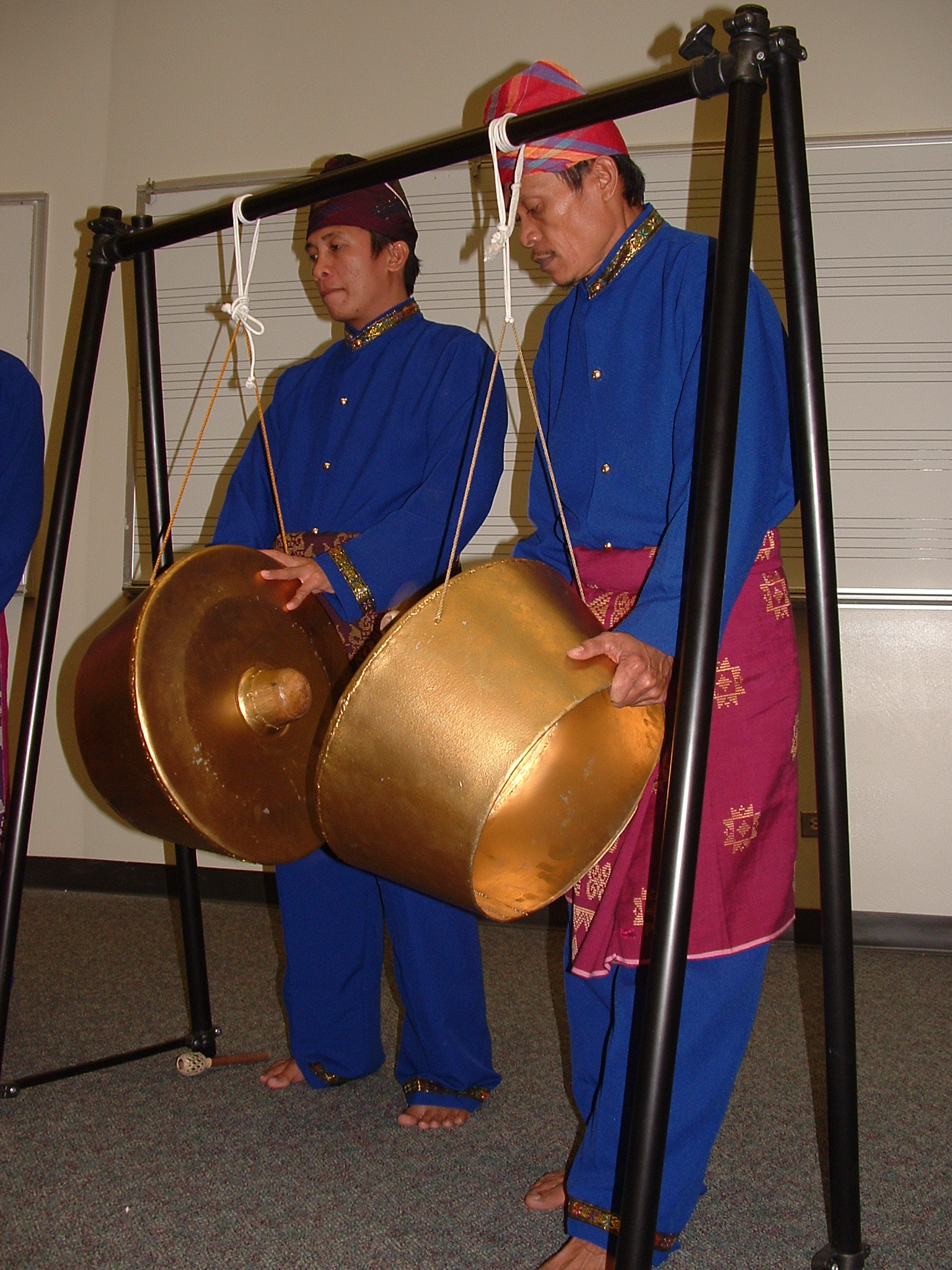 The two Philippine vertically hanged, wide-rimmed gongs known as the agung used as a supportive/accompanying instrument in the kulintang ensemble.